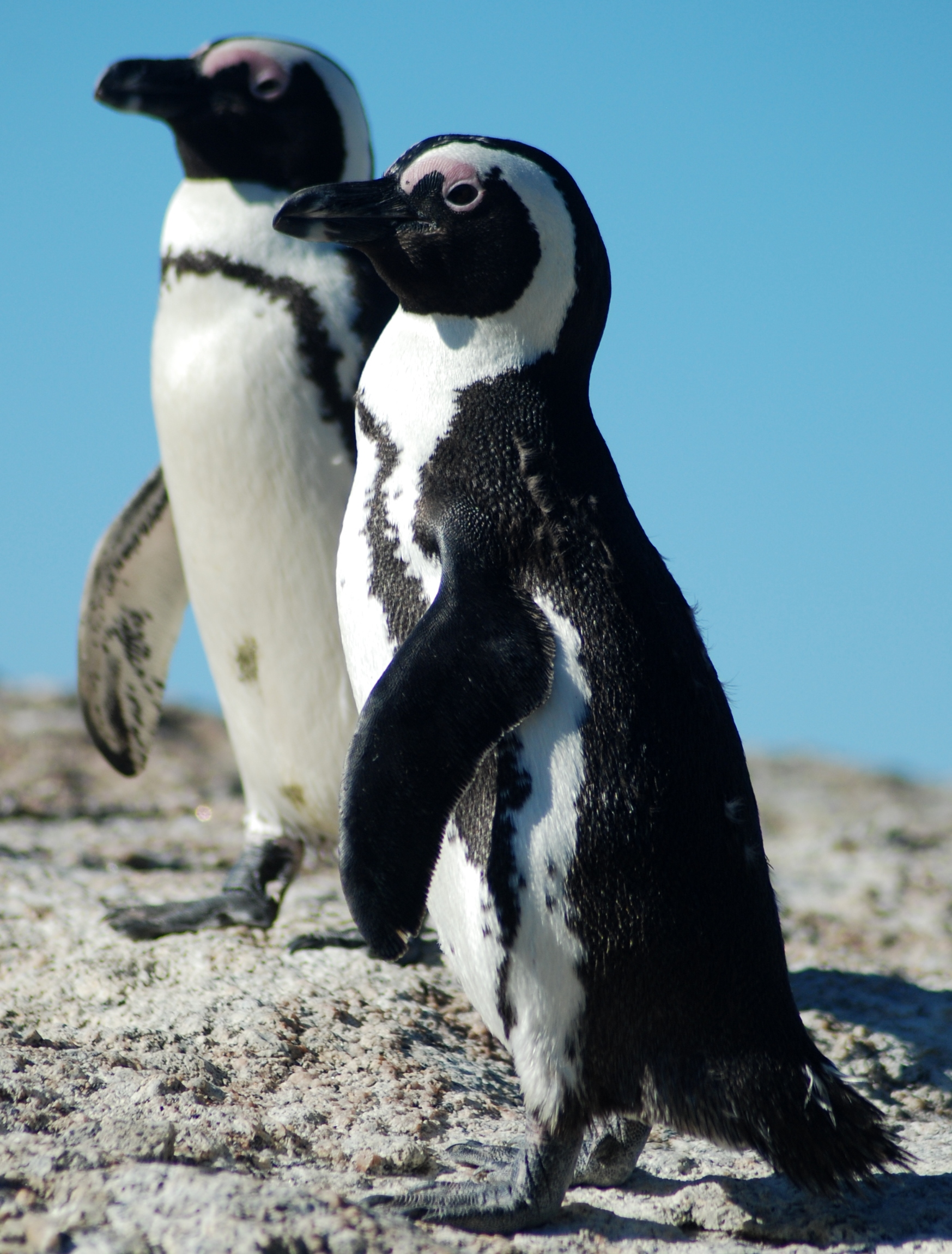 African Penguin at Boulders Beach